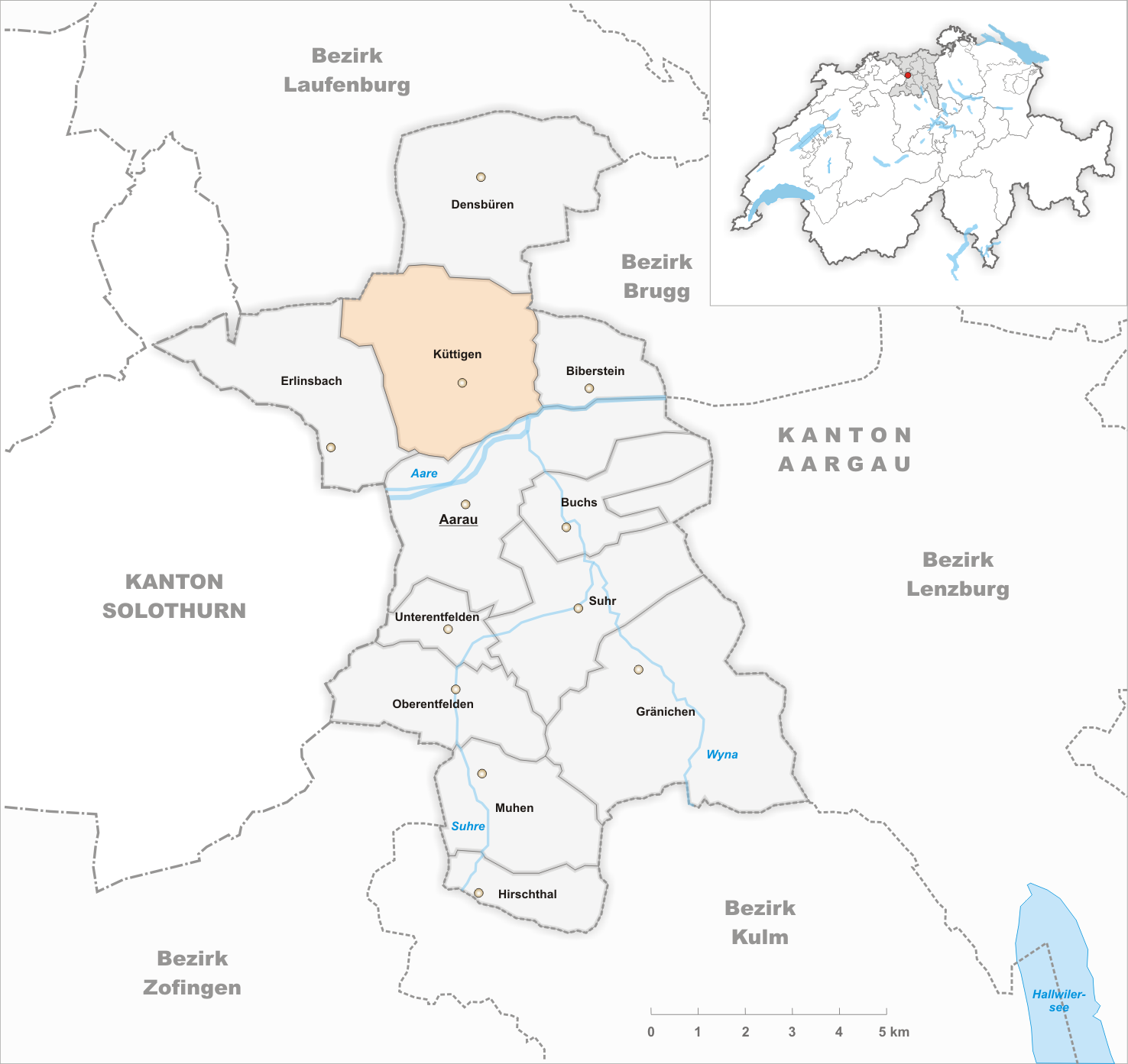 Municipality Küttigen